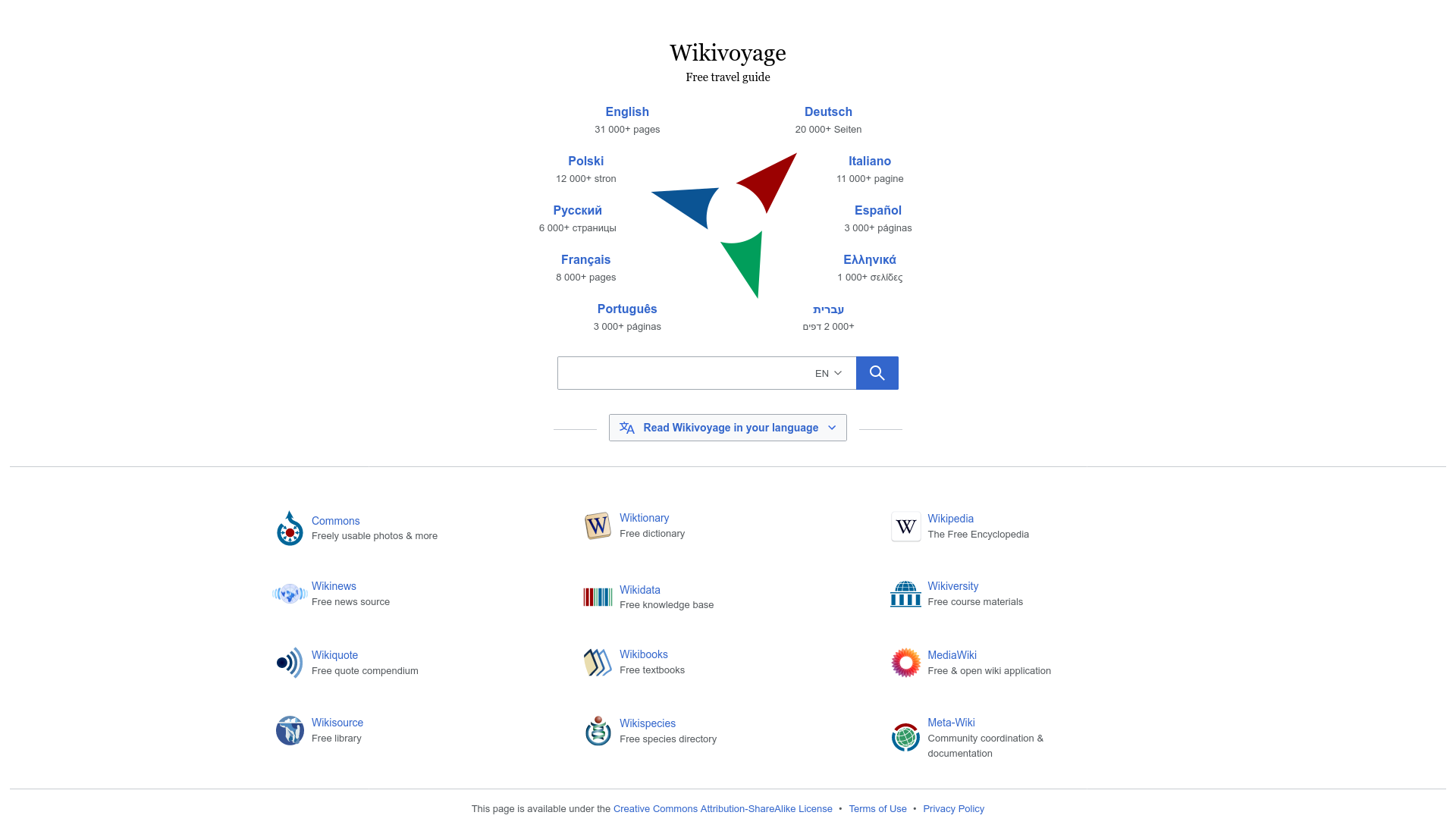 Screenshot of the splash page that appears when visiting Wikivoyage.